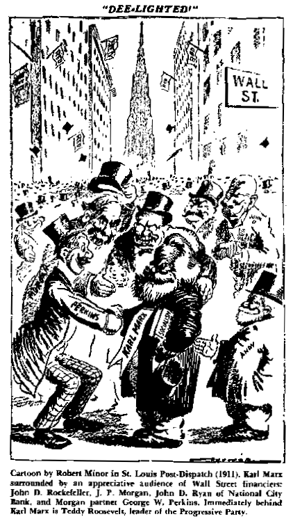 Published in the U.S. in 1911, and hence public domain. "Dee-Lighted!" Cartoon by Robert Minor in St. Louis Post-Dispatch (1911). Karl Marx surrounded by an appreciative audience of Wall Street financiers: John D. Rockefeller, J. P. Morgan, John D. Ryan of National City Bank, and Morgan partner George W. Perkins. Immediately behind Karl Marx is Teddy Roosevelt, leader of the Progressive Party.